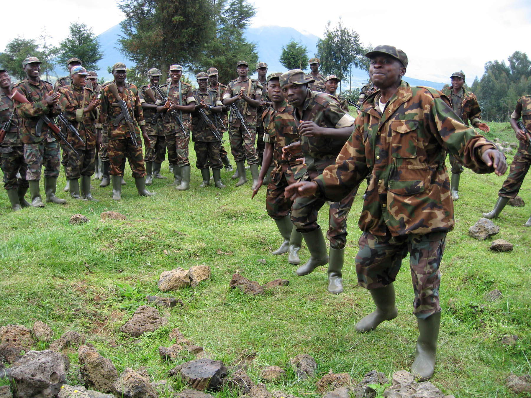 Original caption states, "Rwanda: Soldier Singing at the 'Club Anit-SIDA' Meeting: A group of soldiers at their 'Club Anti-SIDA' meeting practicing a song they have composed. These soldiers are part of the mobile units of the Rwandan military that patrol the Rwandan borders with Uganda and the Democratic Republic of Congo. They have all had counseling and testing for HIV."